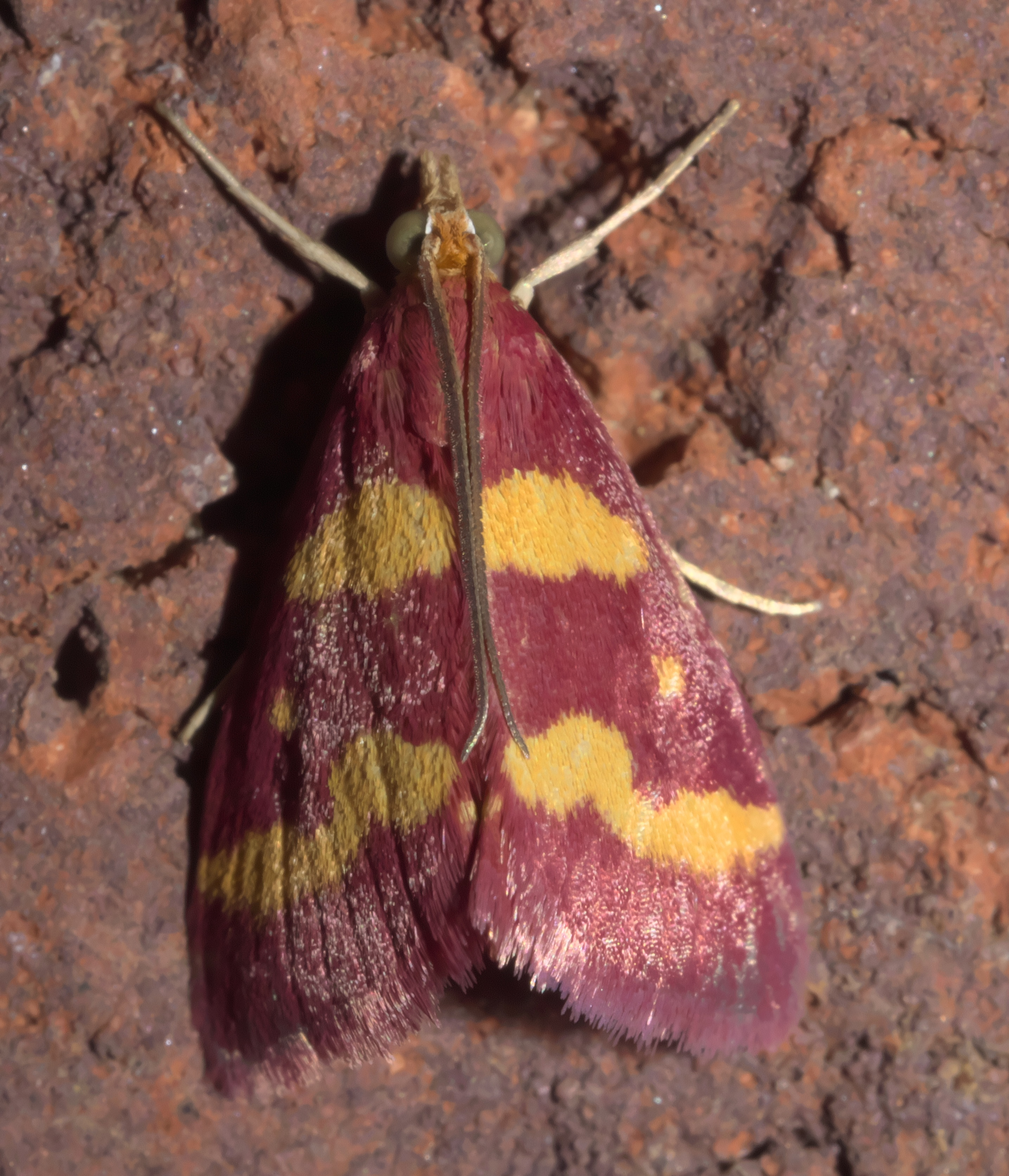 Pyrausta tyralis, coffee-loving pyrausta moth, ID Confidence: 94